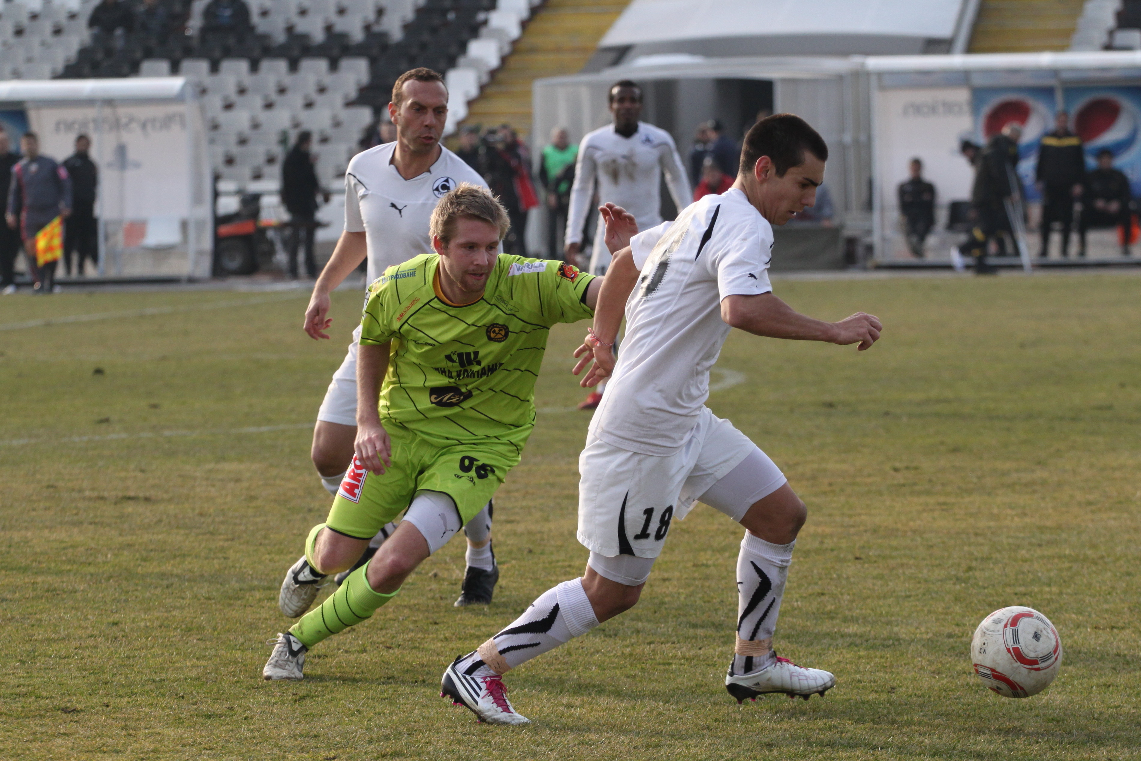 Tomáš Okleštěk (born 21 February 1987) is a Czech football player who plays for Bulgarian A PFG side Minyor Pernik. He made his debut in Bulgaria on 27.2.2011